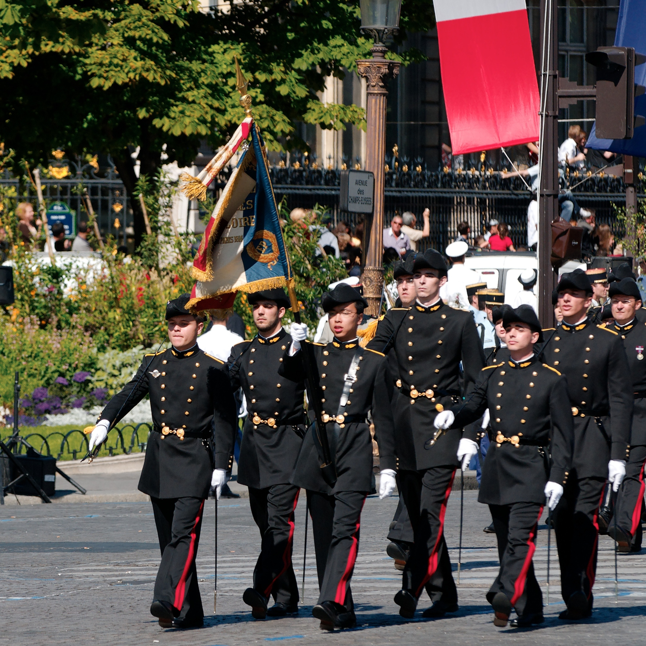 Colour guard of the École polytechnique, Bastille Day 2008 military parade on the Champs-Élysées, Paris.